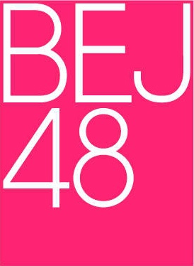 BEJ48 Logo